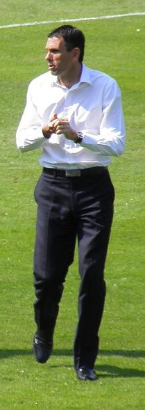 Photograph of Gus Poyet